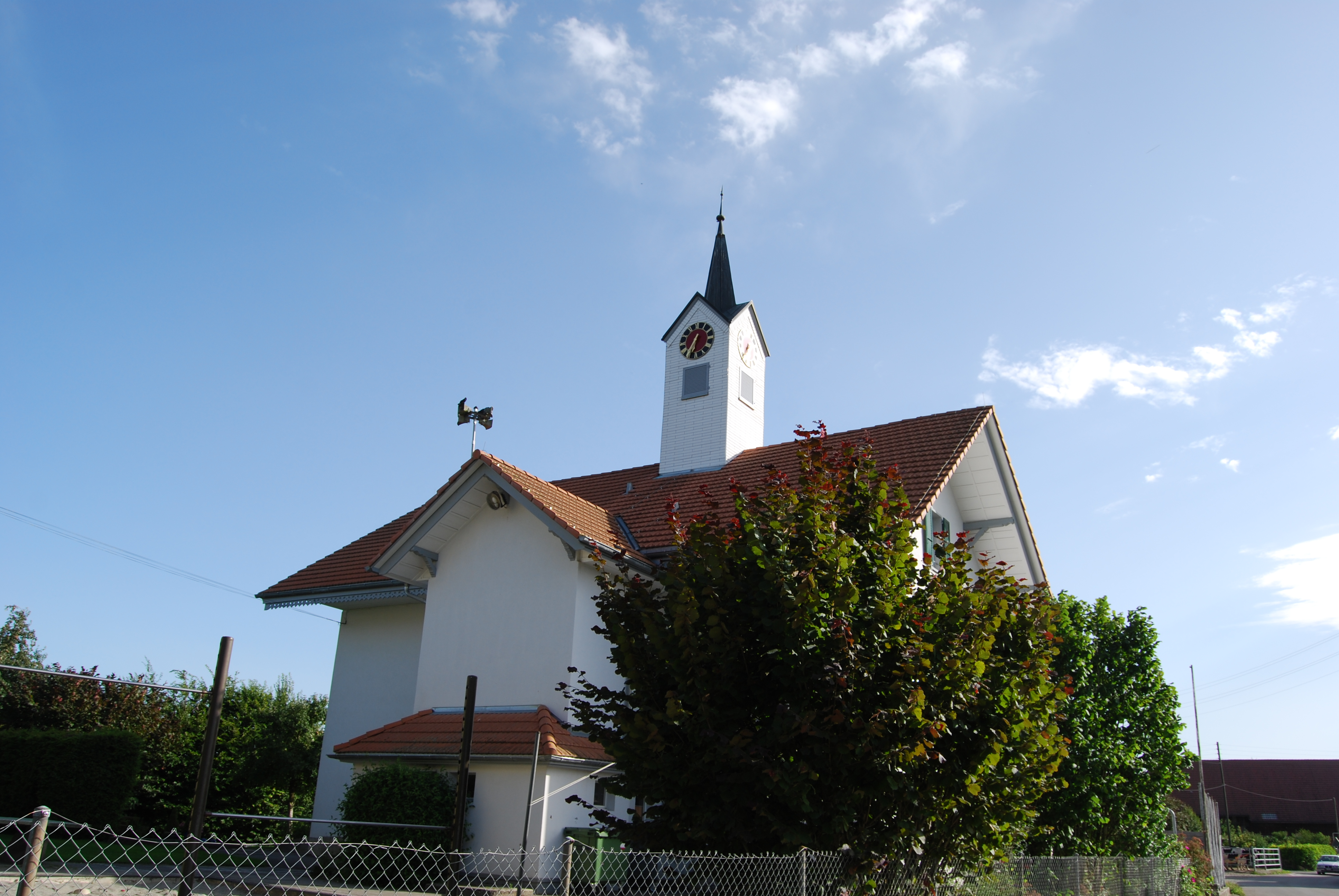 School building of Gurbrü, canton of Bern, Switzerland